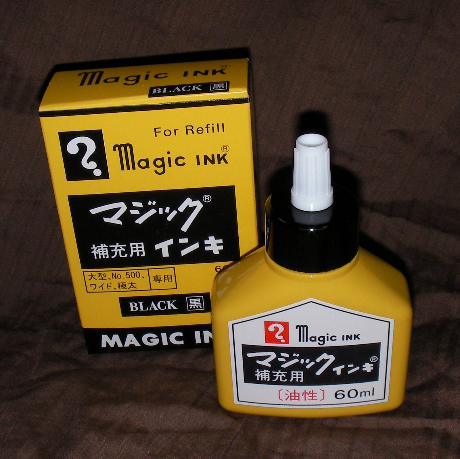 MagicINK-Refill